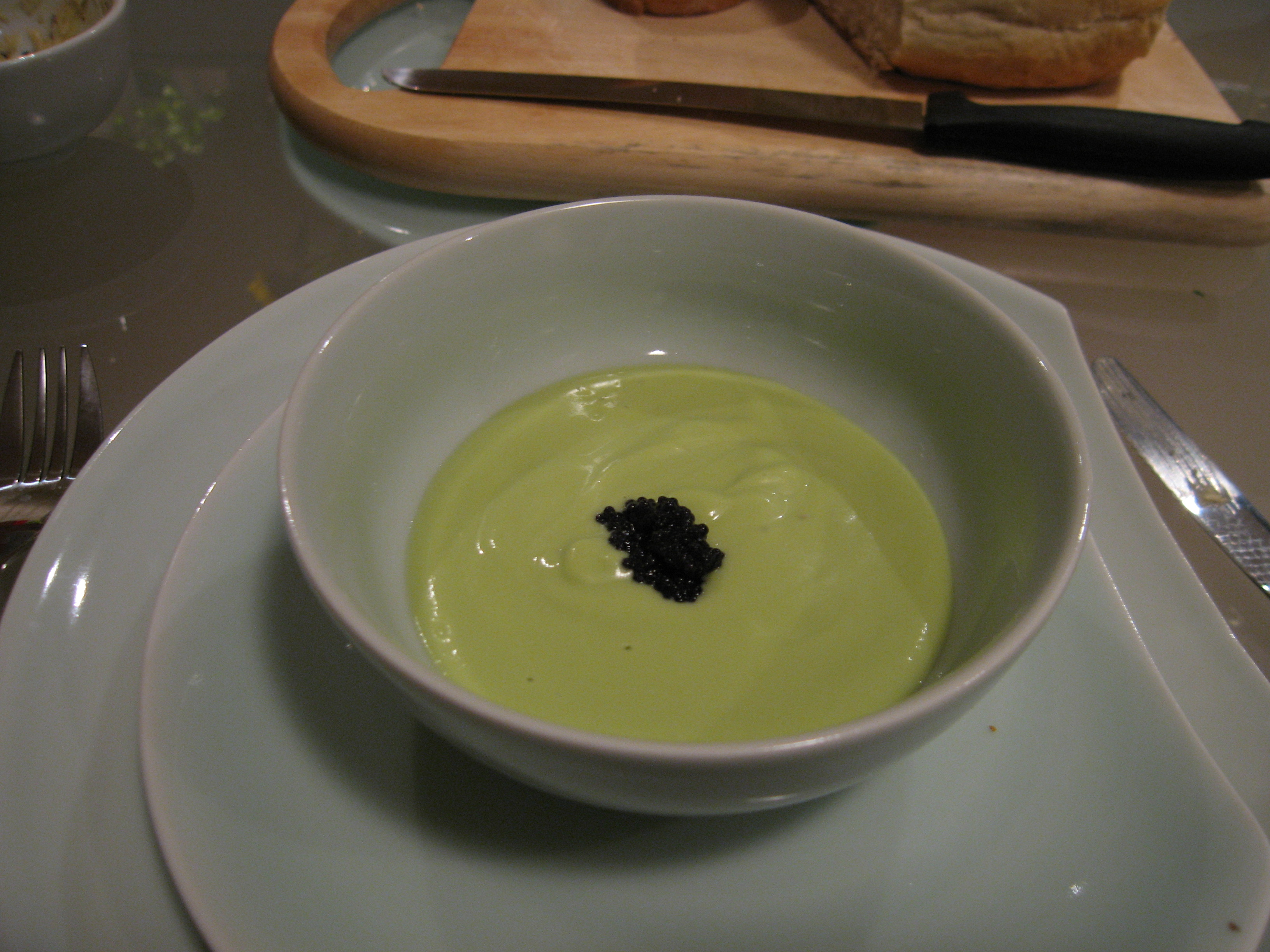 D. made cold avocado soup with a spoon of caviar for garnish, straight out of the Tetsuya's book.